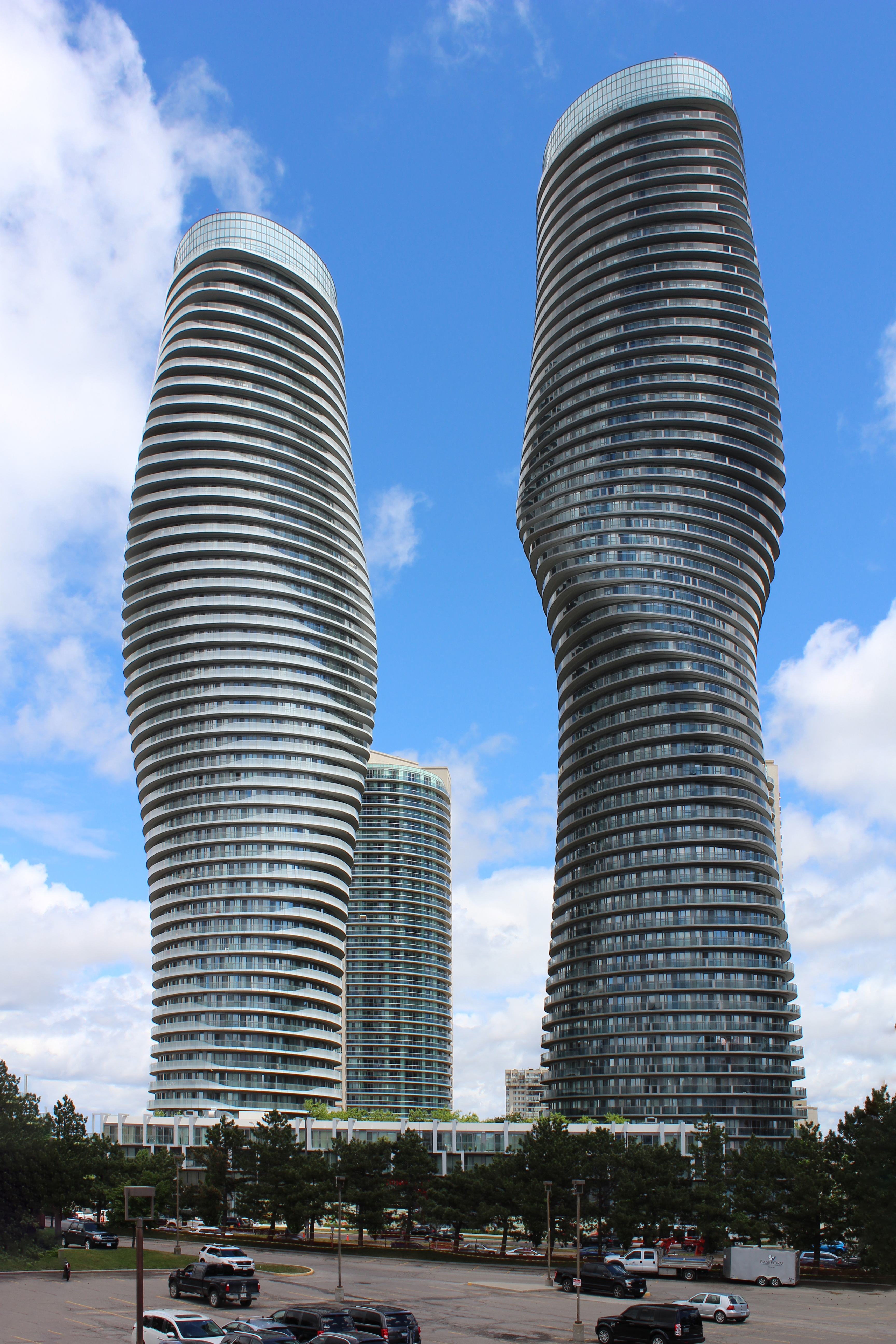 Absolute Towers Mississauga. South-west view.